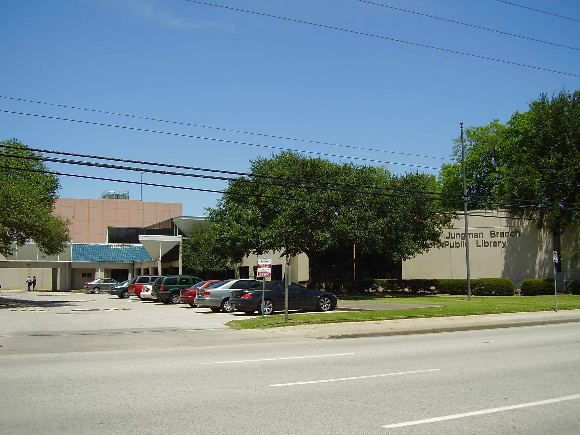 J. Frank Jungman Branch Library